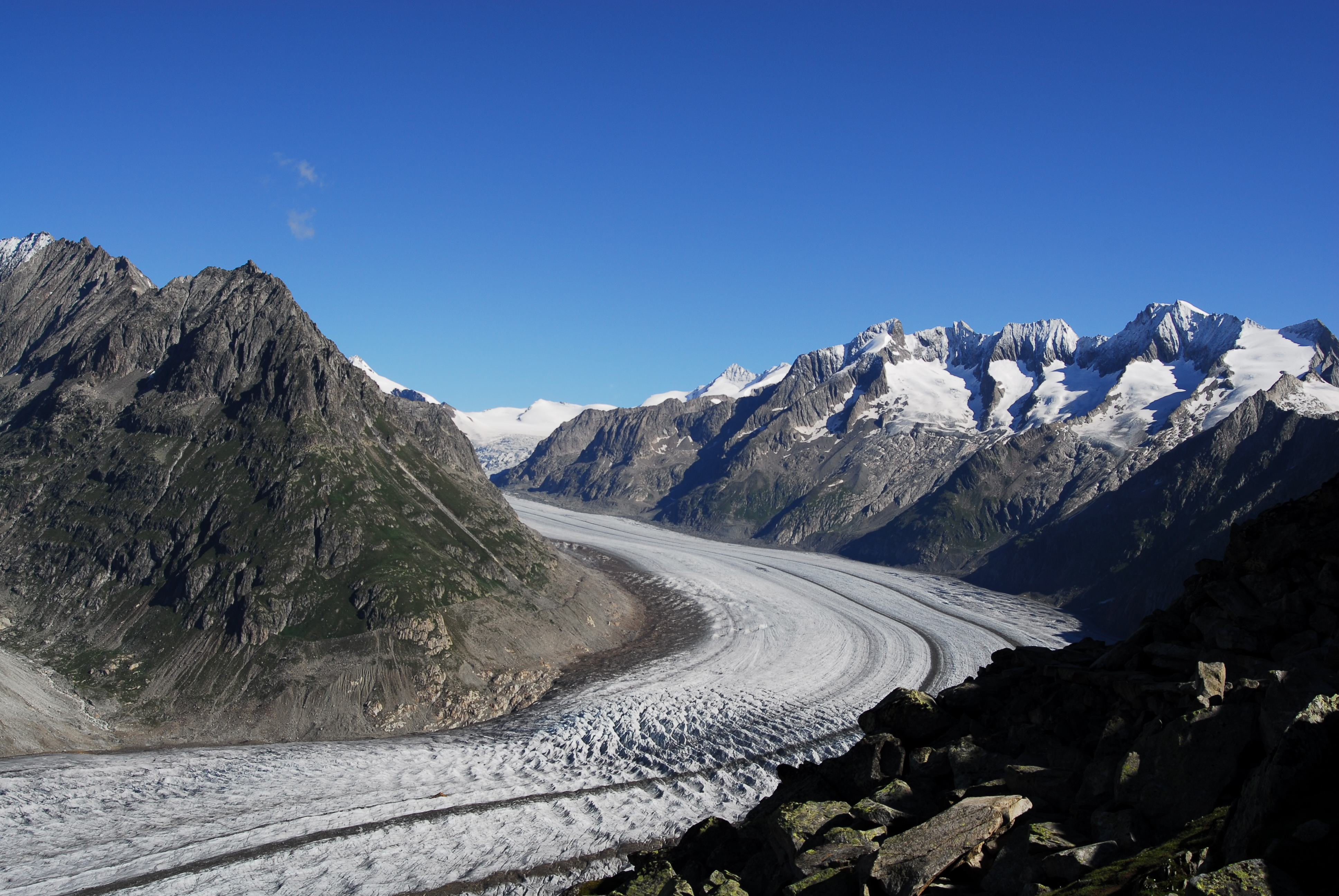 The Aletsch Glacier, seen from Bettmerhorn